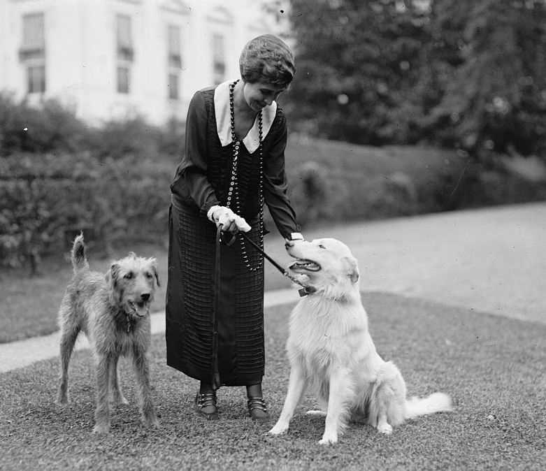 Mrs. Coolidge with "Rob Roy & Laddie Buck," 9/26/24